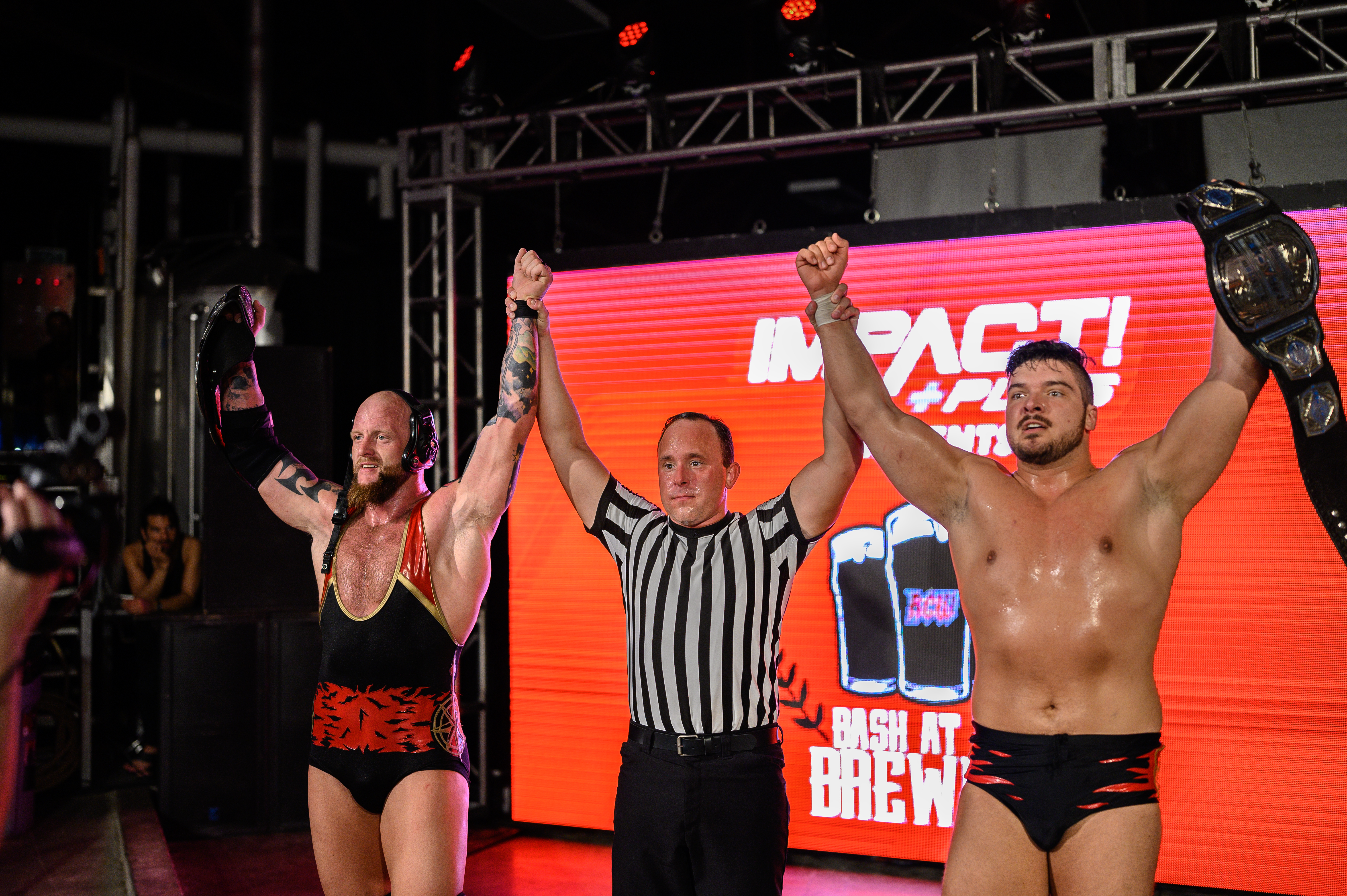 RCW & IMPACT Wrestling present Bash at the Brewery on July 5, 2019. Aired on IMPACT Twitch and IMPACT Plus from Freetail Brewery in San Antonio.